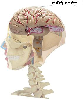 Location of the Cerebral Cortex.